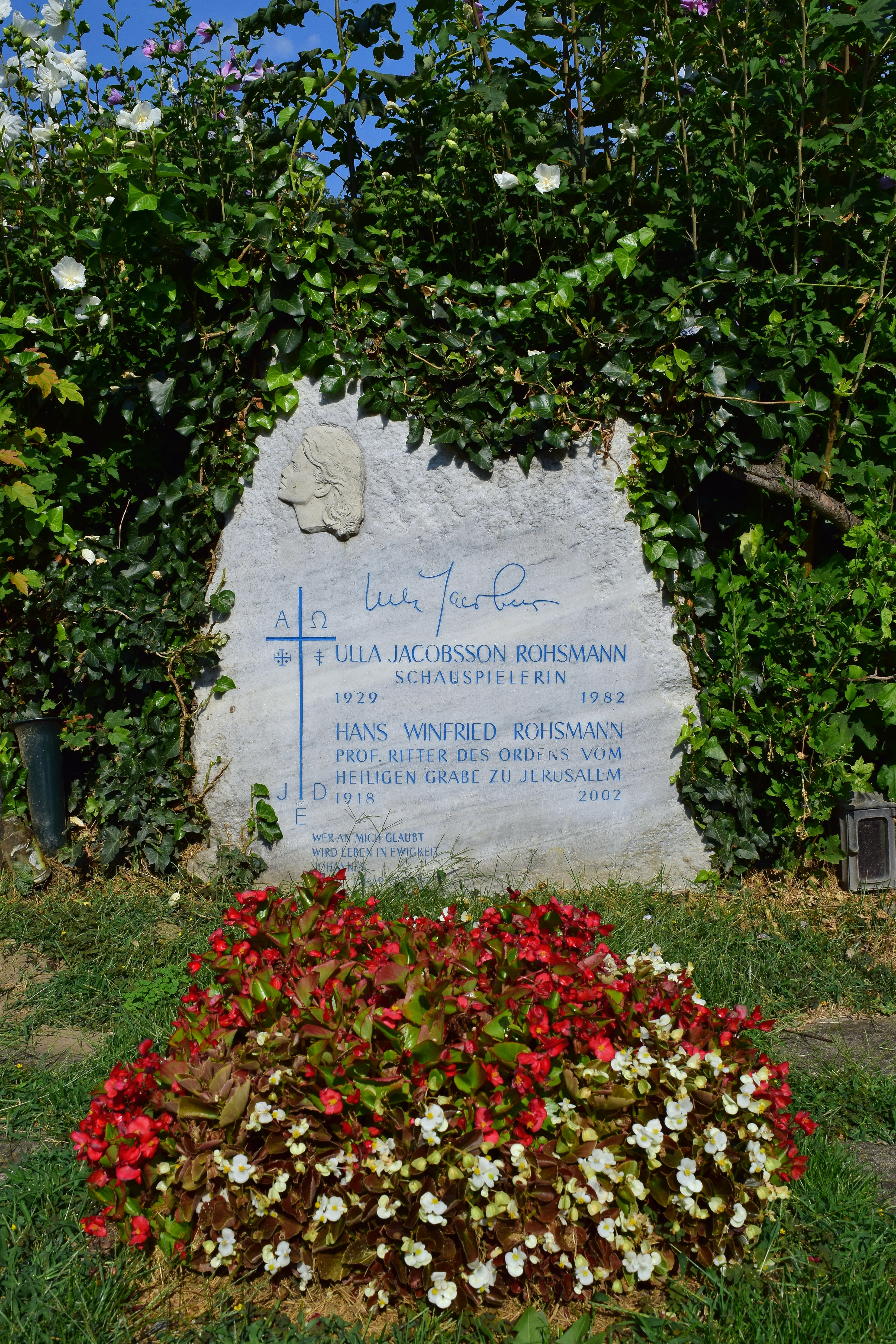 Grave of honor of the Swedish actress Ulla Jacobsson at the Wiener Zentralfriedhof